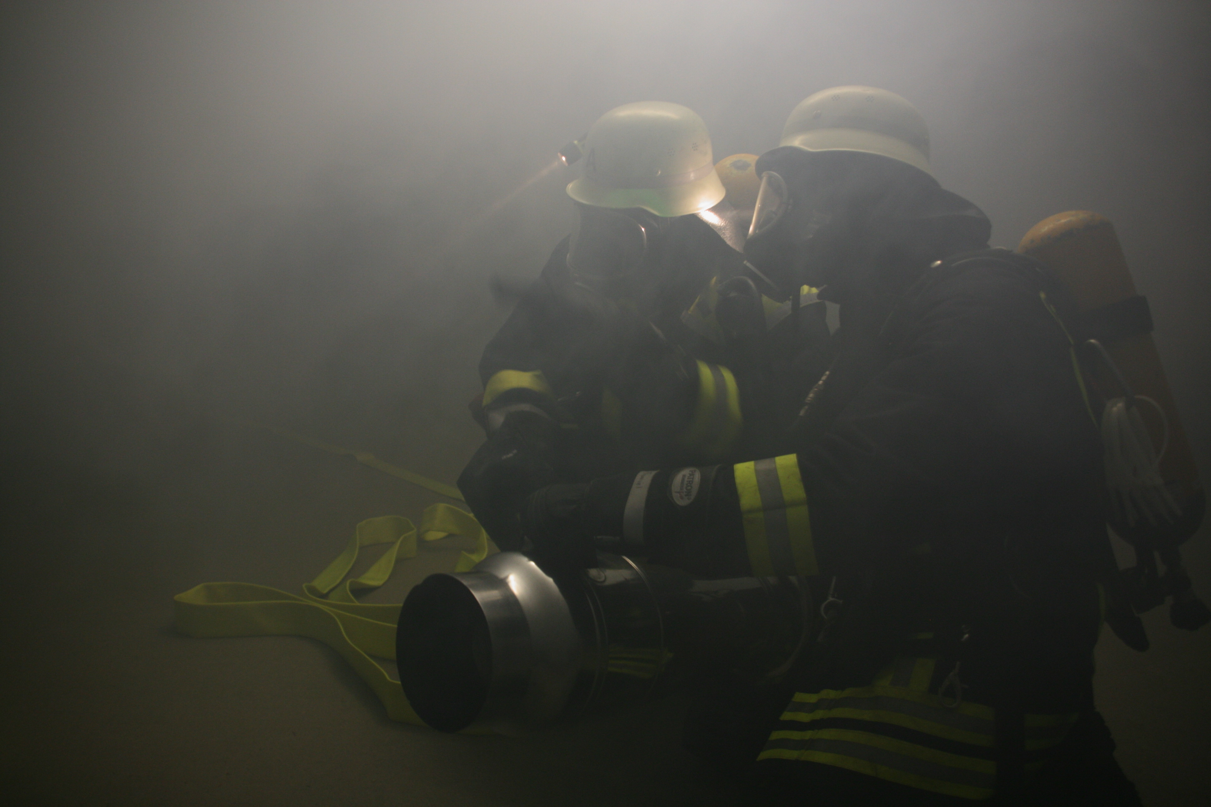 Two Firefighters wearing a SCBA during a Training Scenary